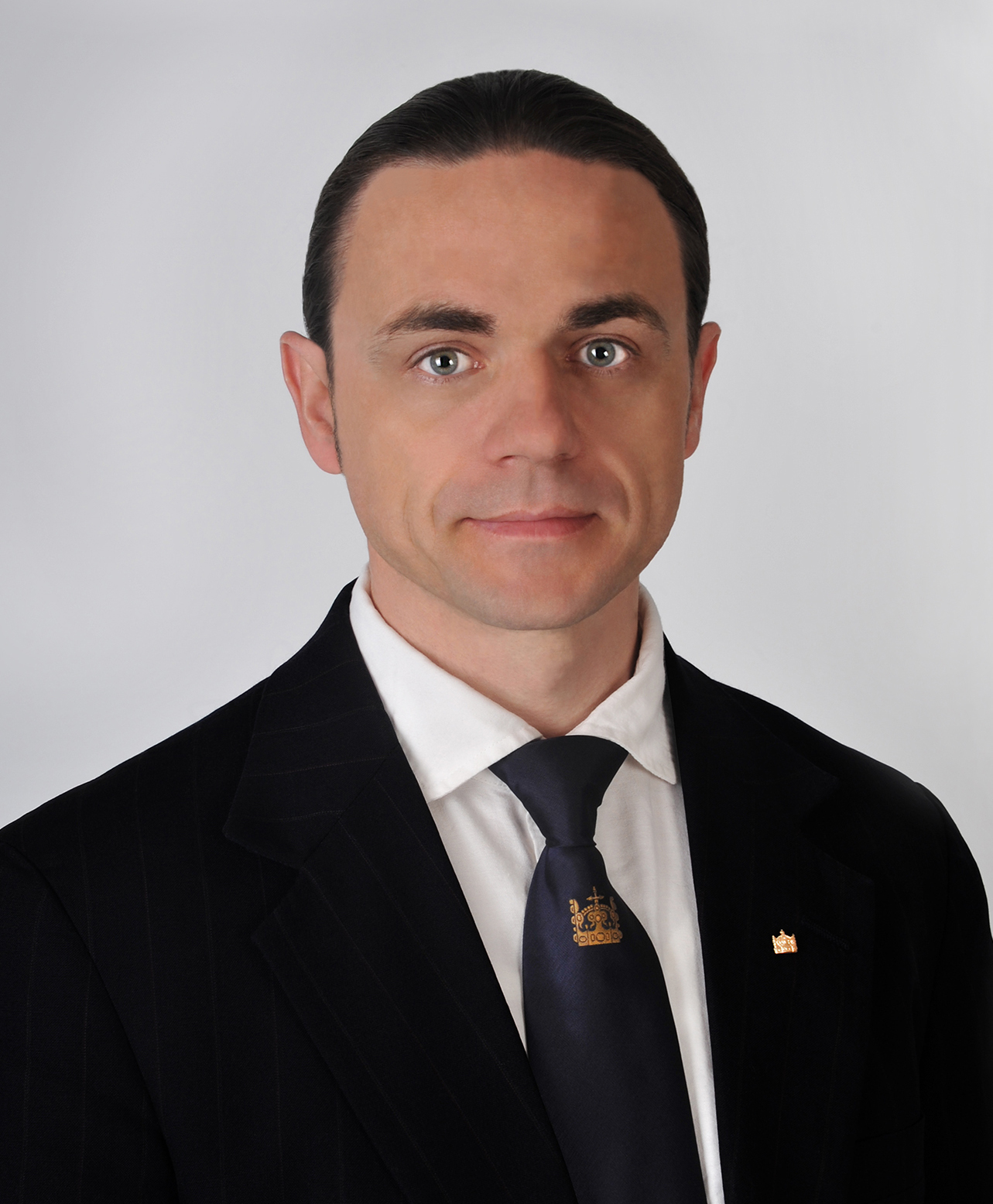 Official Photo of Emil Adamec in 2013 Parliamentary Elections